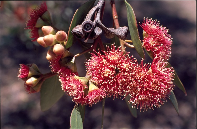 Buds, flowers and fruit of Eucalyptus nutans on the Tea Tree Gully Golfcourse, South Australia